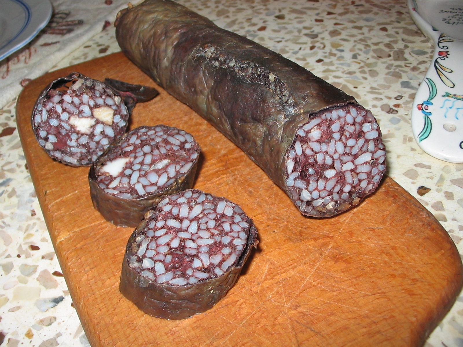 Gurka blood sausage, here made with rice and pork rind